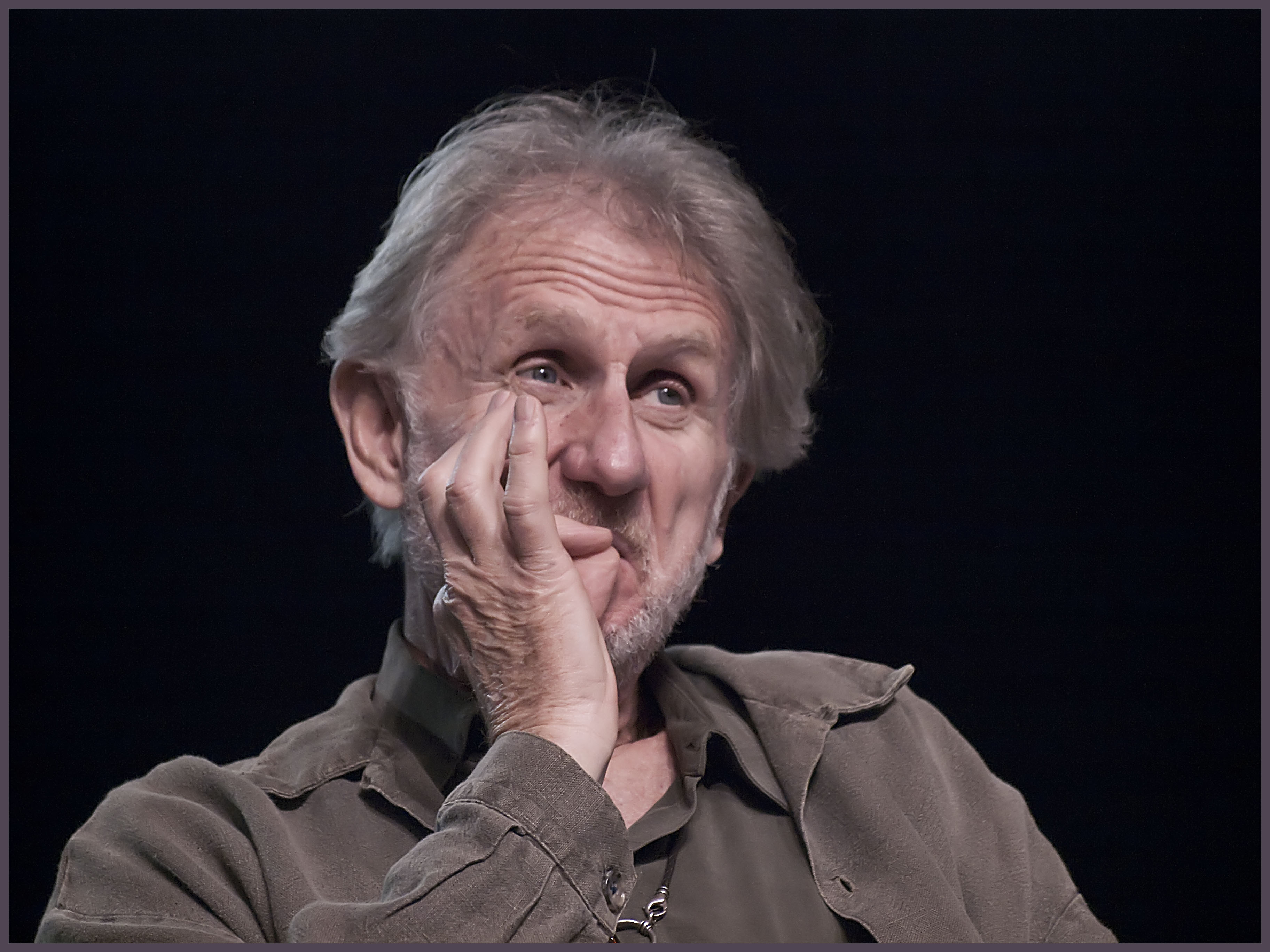 René Auberjonois at the 2009 Star Trek convention in Las Vegas.